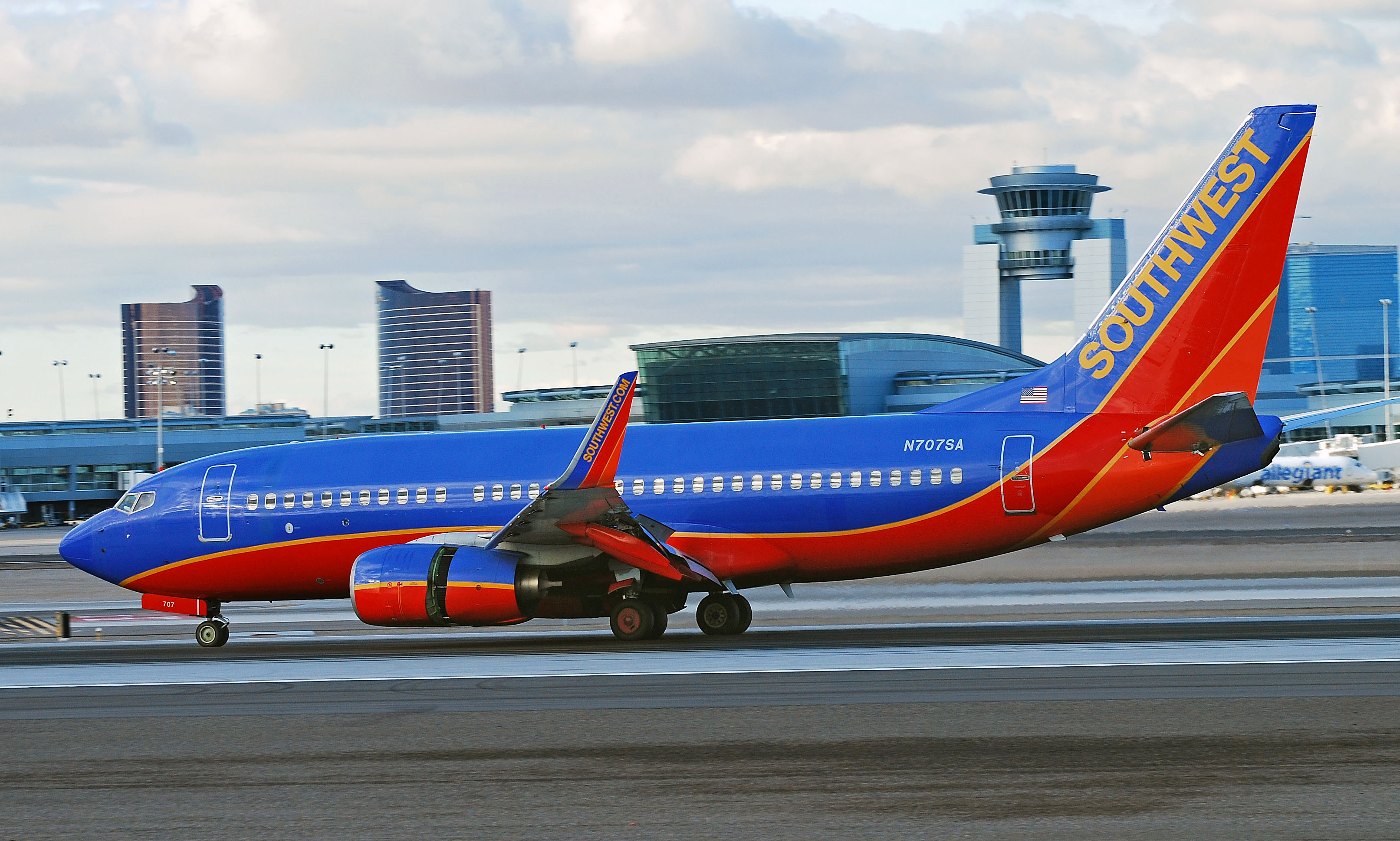 Las Vegas - McCarran International (LAS / KLAS) USA - Nevada, December 23, 2010 Photo: Tomas Del Coro